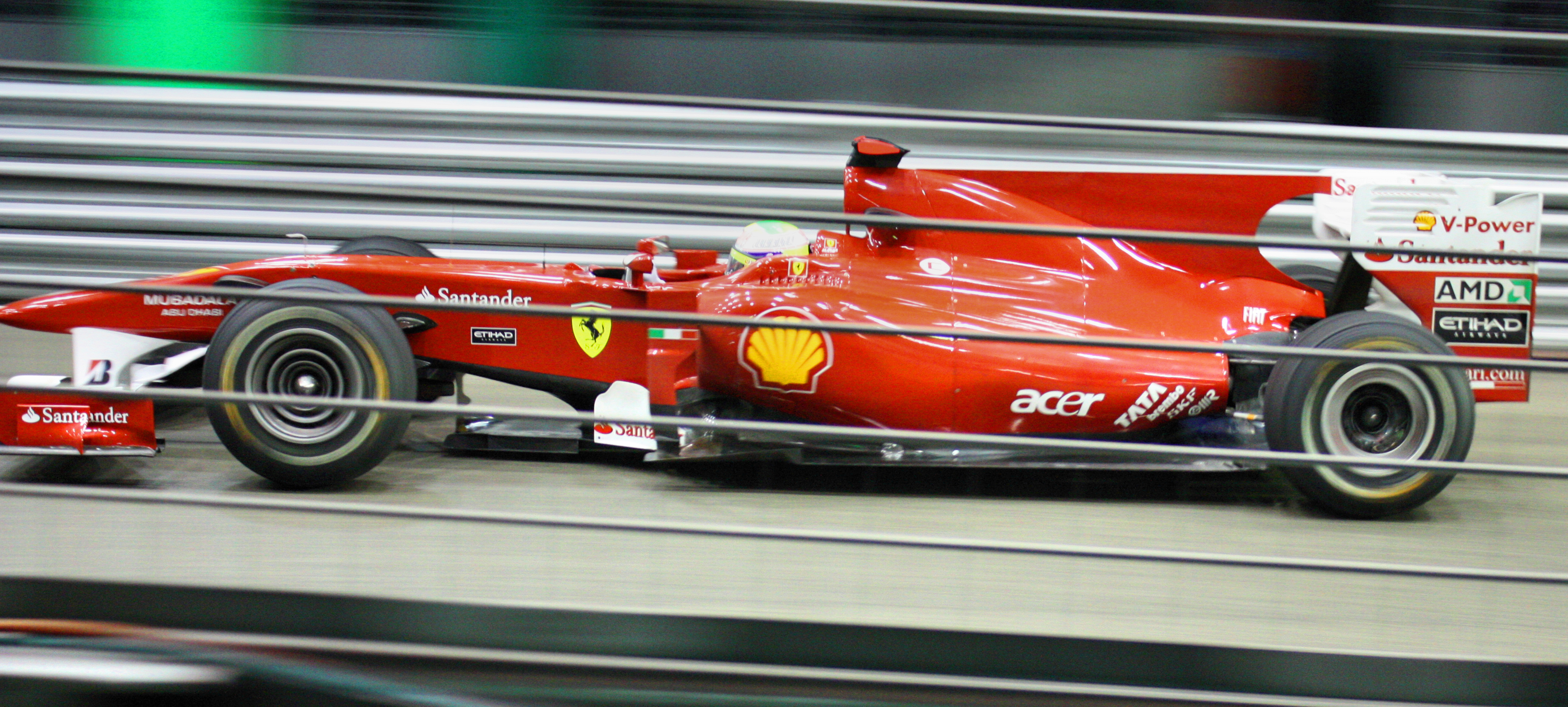 Felipe Massa driving for Scuderia Ferrari at the 2010 Singapore Grand Prix.